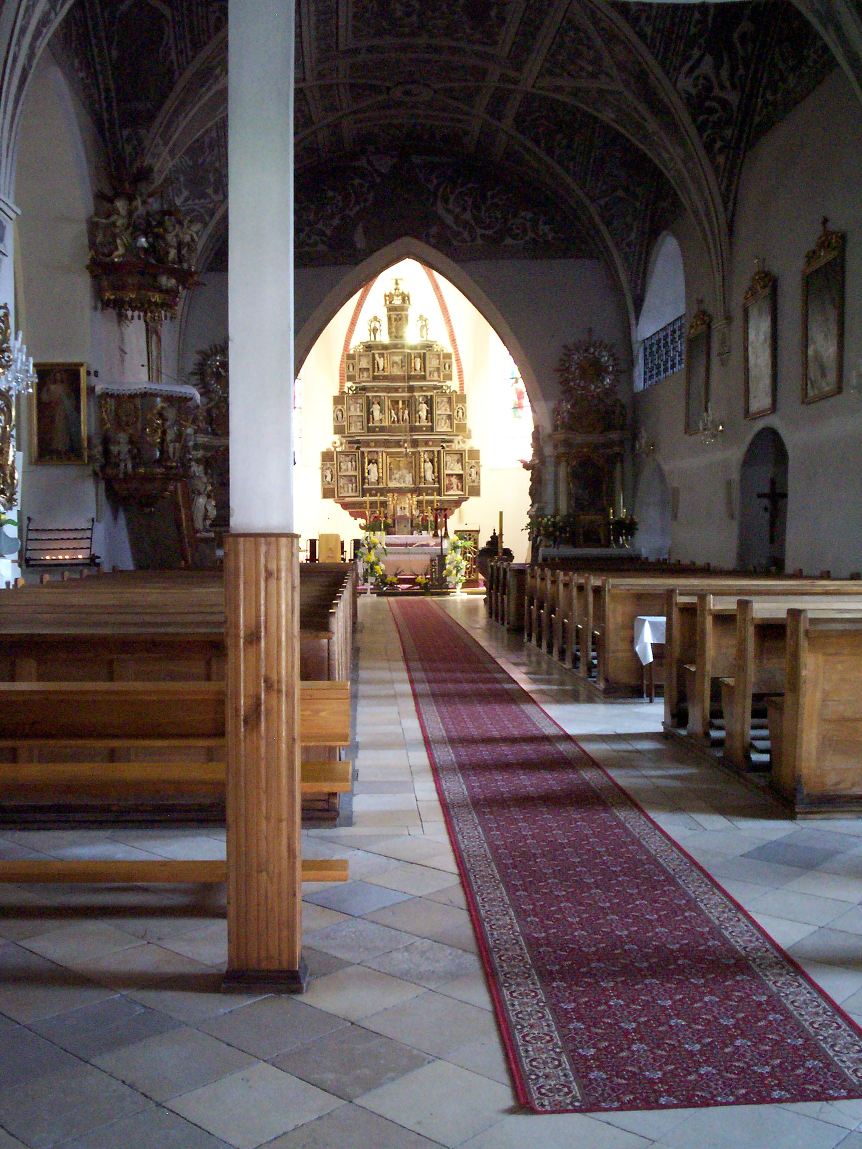 Saint Hedwig Church in Gryfów Śląski